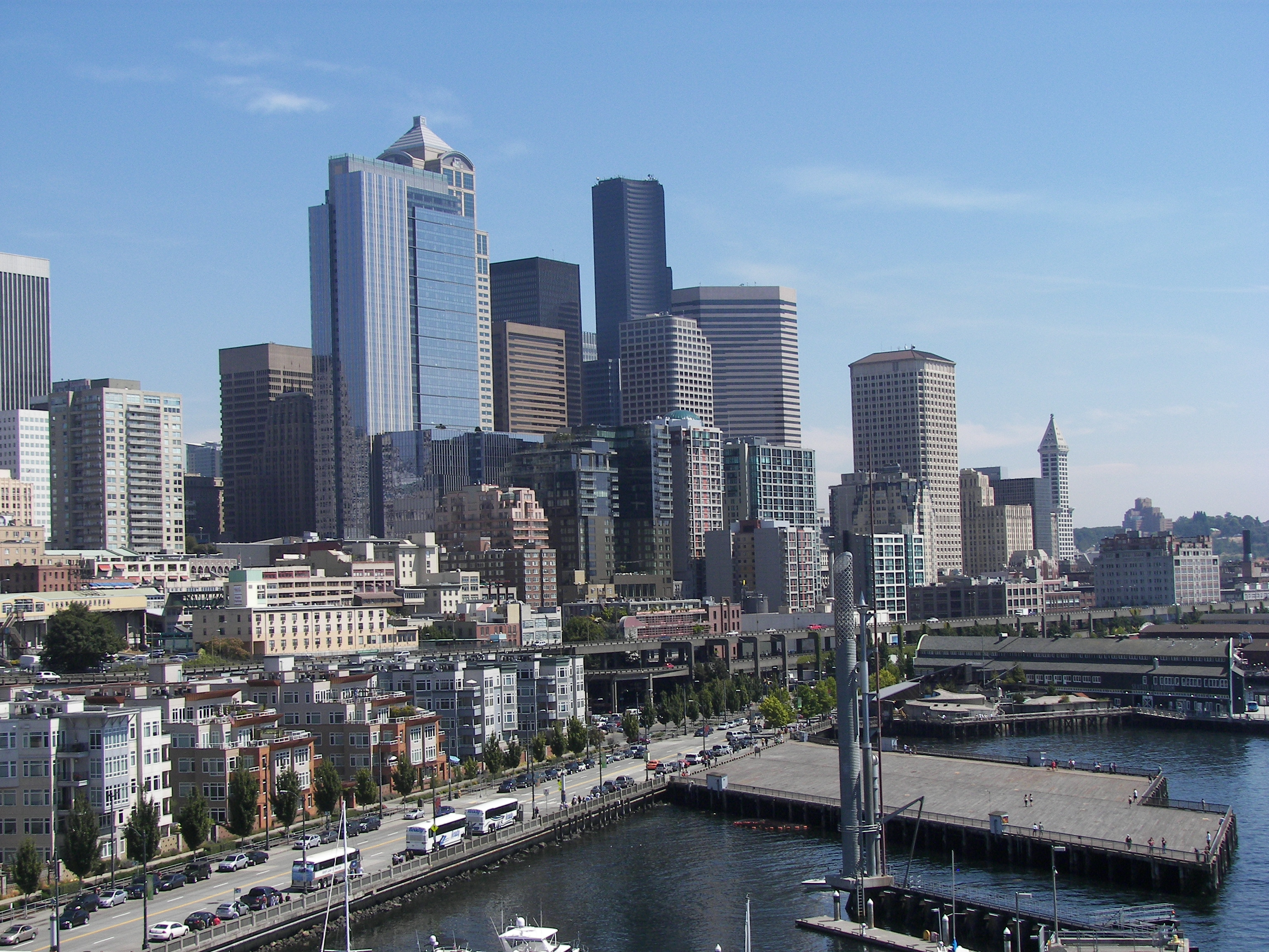 Downtown Seattle from a ship in Pier 66.